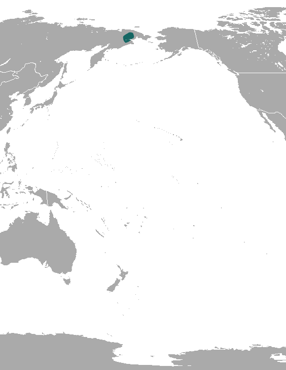 Portenko's Shrew (Sorex portenkoi) range